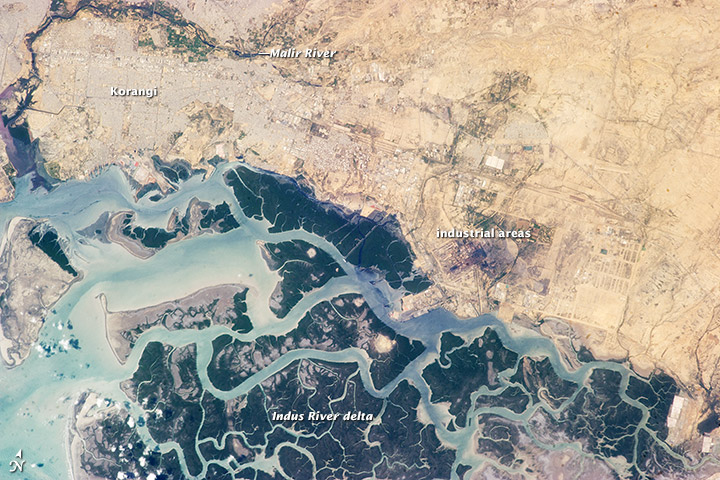 Korangi and region, from space